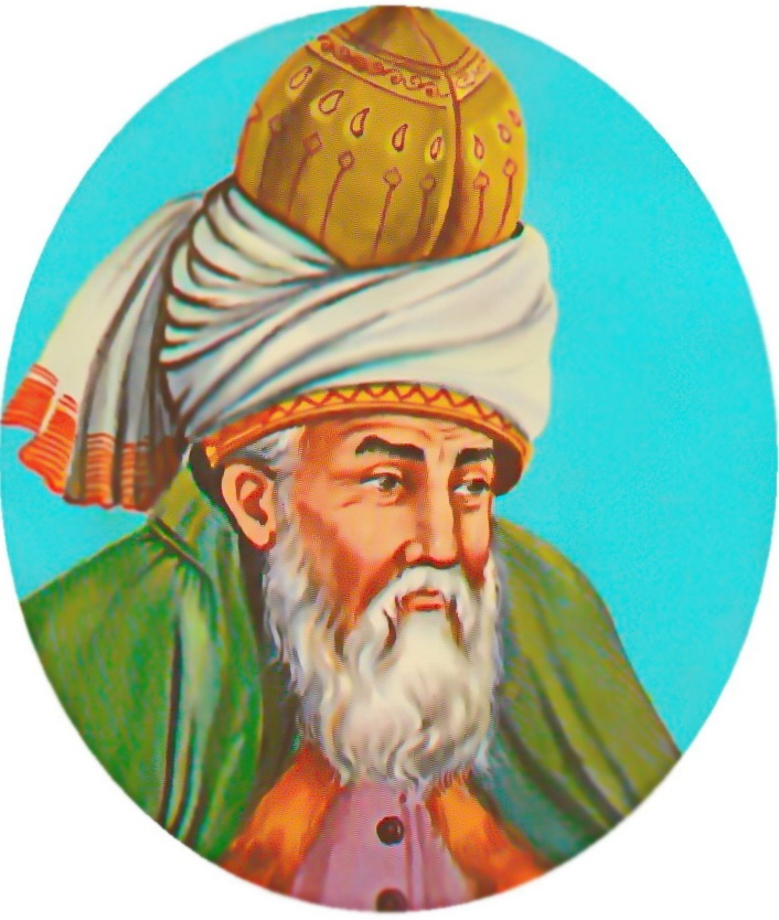 Rumi's imaginary on a tiling art . Yeni Qapi, Istanbul